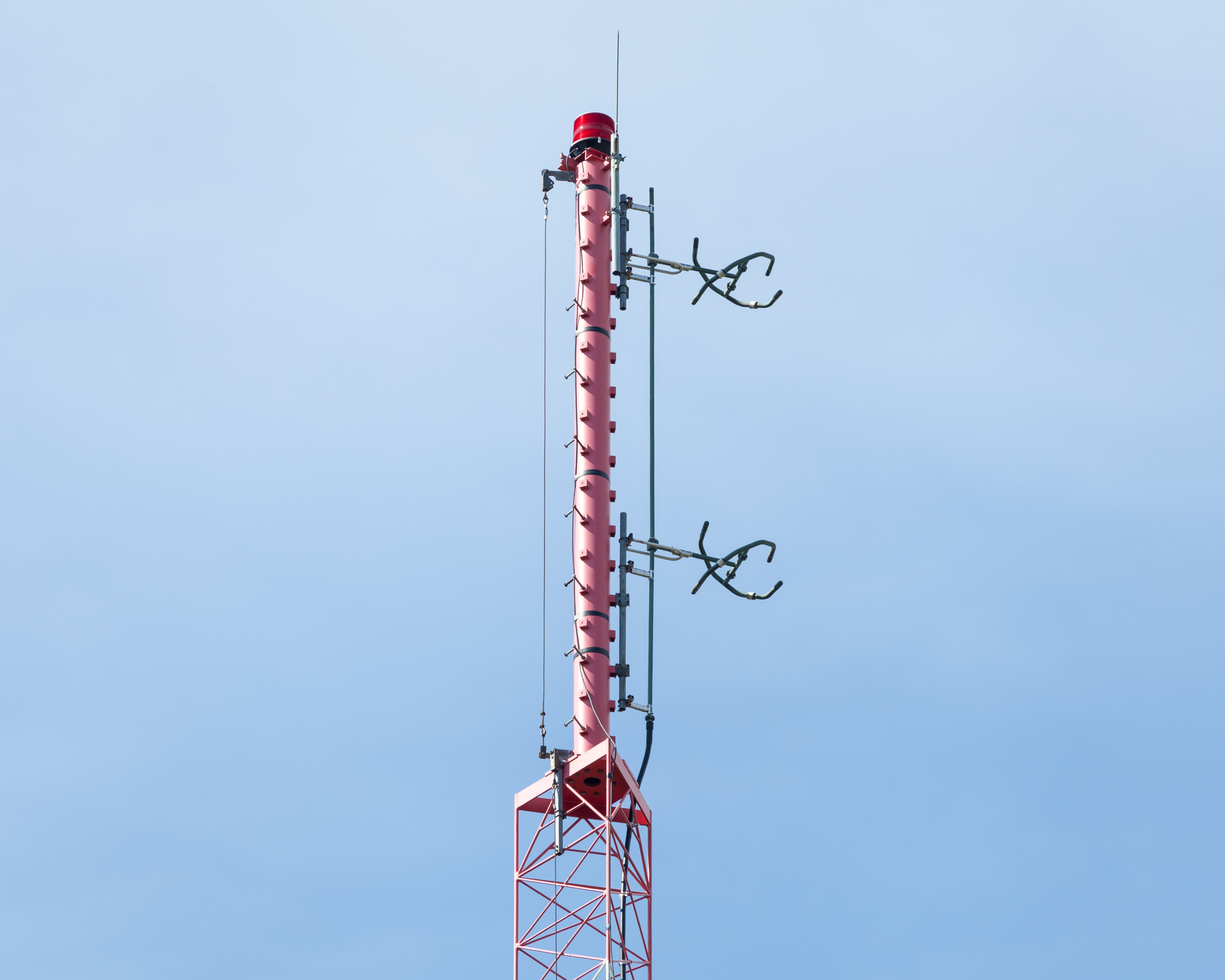 Mast atop the tower for WRLF (FM) and WTCS (AM) in Fairmont, West Virginia, showing the two bay circularly polarized FM antenna for WRLF.